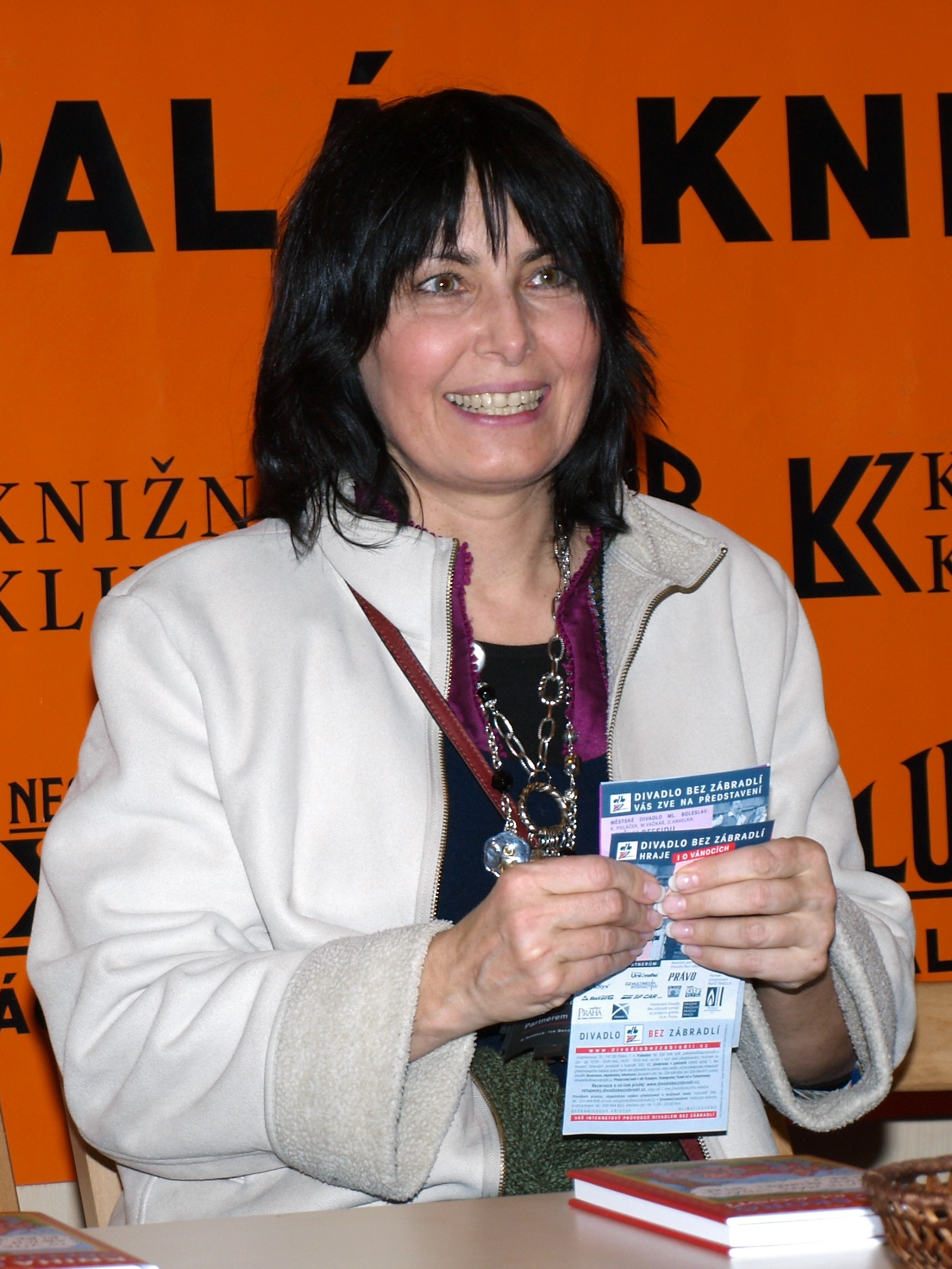 Czech actress and Tai Chi Chuan practitioner Zora Jandová